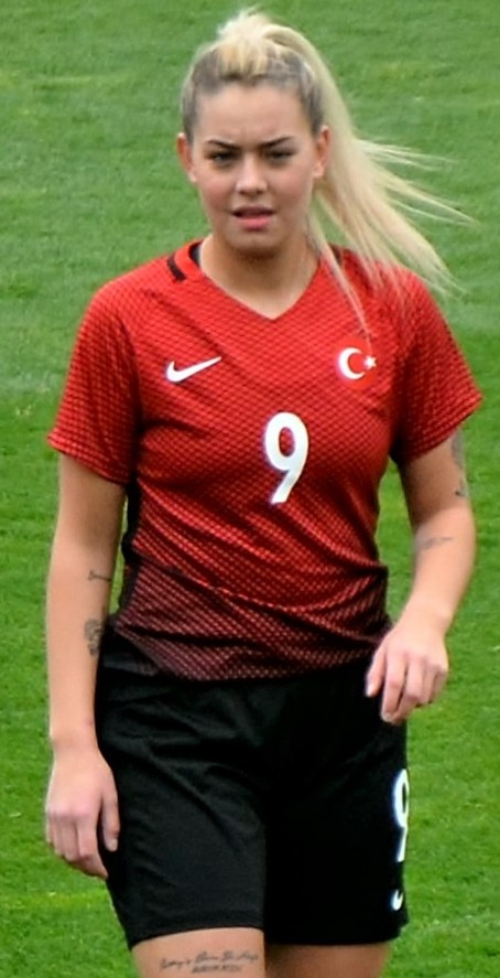 Aycan Yanaç playing for Turkey women's national football team in the friendly home match against Estonia at TFF Riva Facility on 7 April 2018.